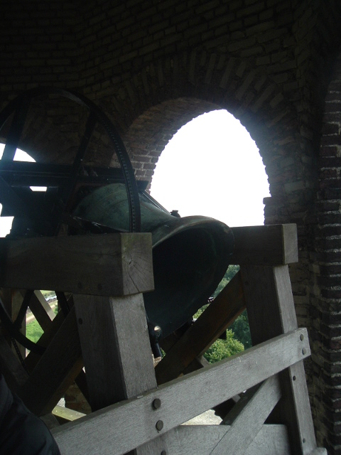 Angelus bell in St Martin church of Gennep, Netherlands